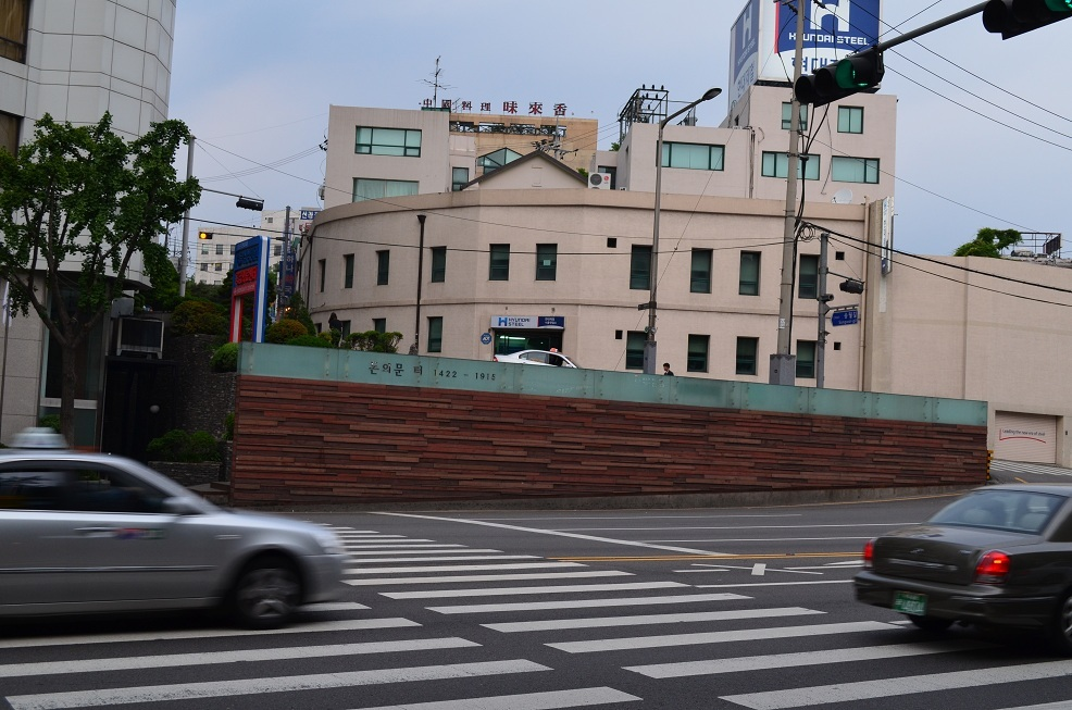 Memorial for Donuimun Gate, also known as West Gate or Seodaemun, Seoul, South Korea. Photographed May 27, 2012.